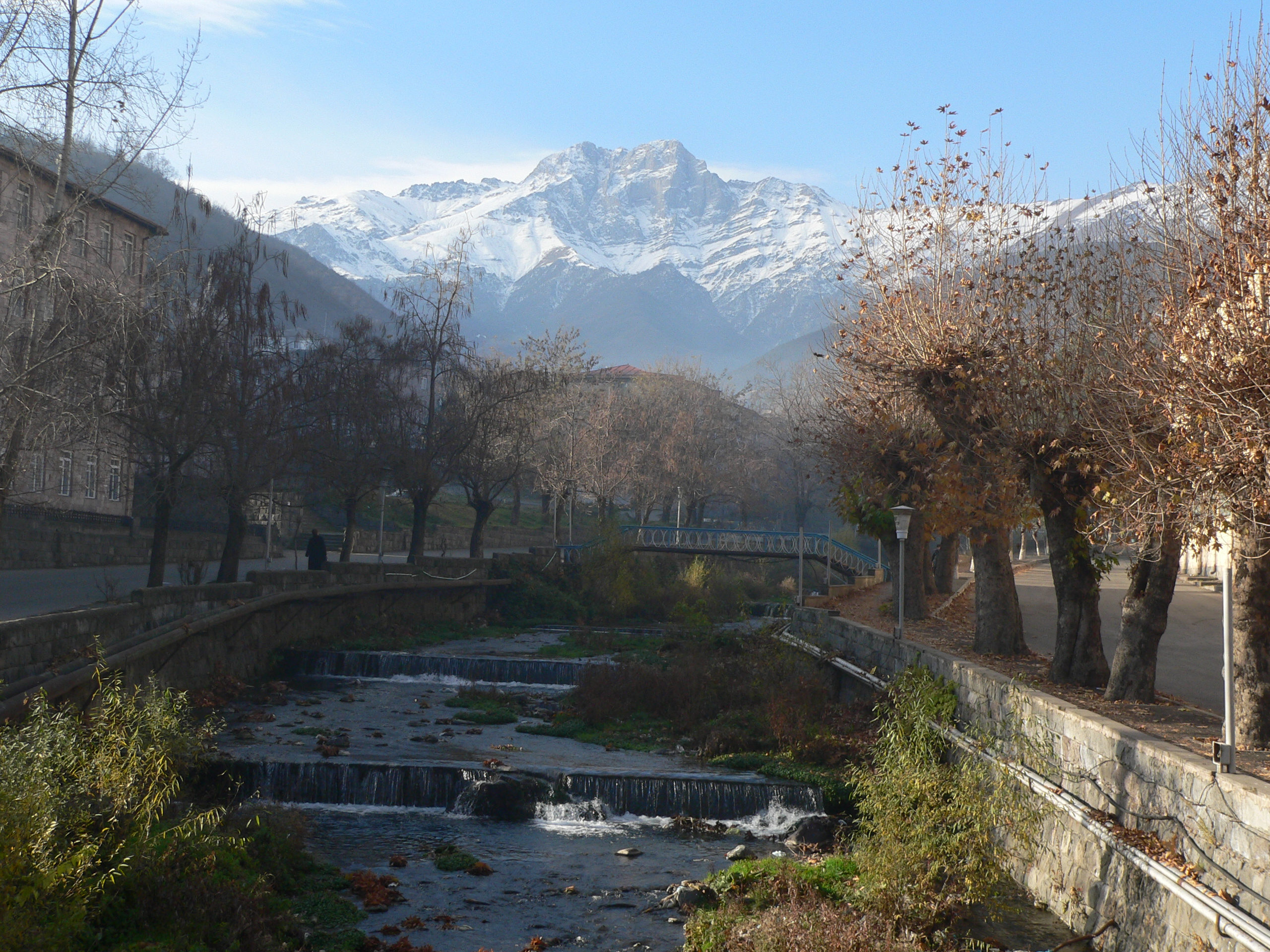 Khustup Mountain. View from Kapan with river Vachagan in the foreground.